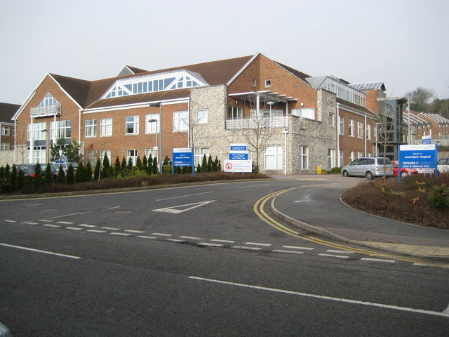 Amersham Hospital This is Entrance 3 to the very new hospital buildings on Whielden Street.